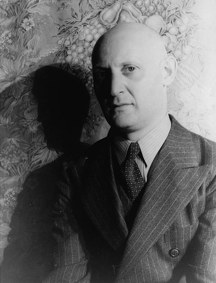 Israel Joshua Singer Portrait of Israel Joshua Singer